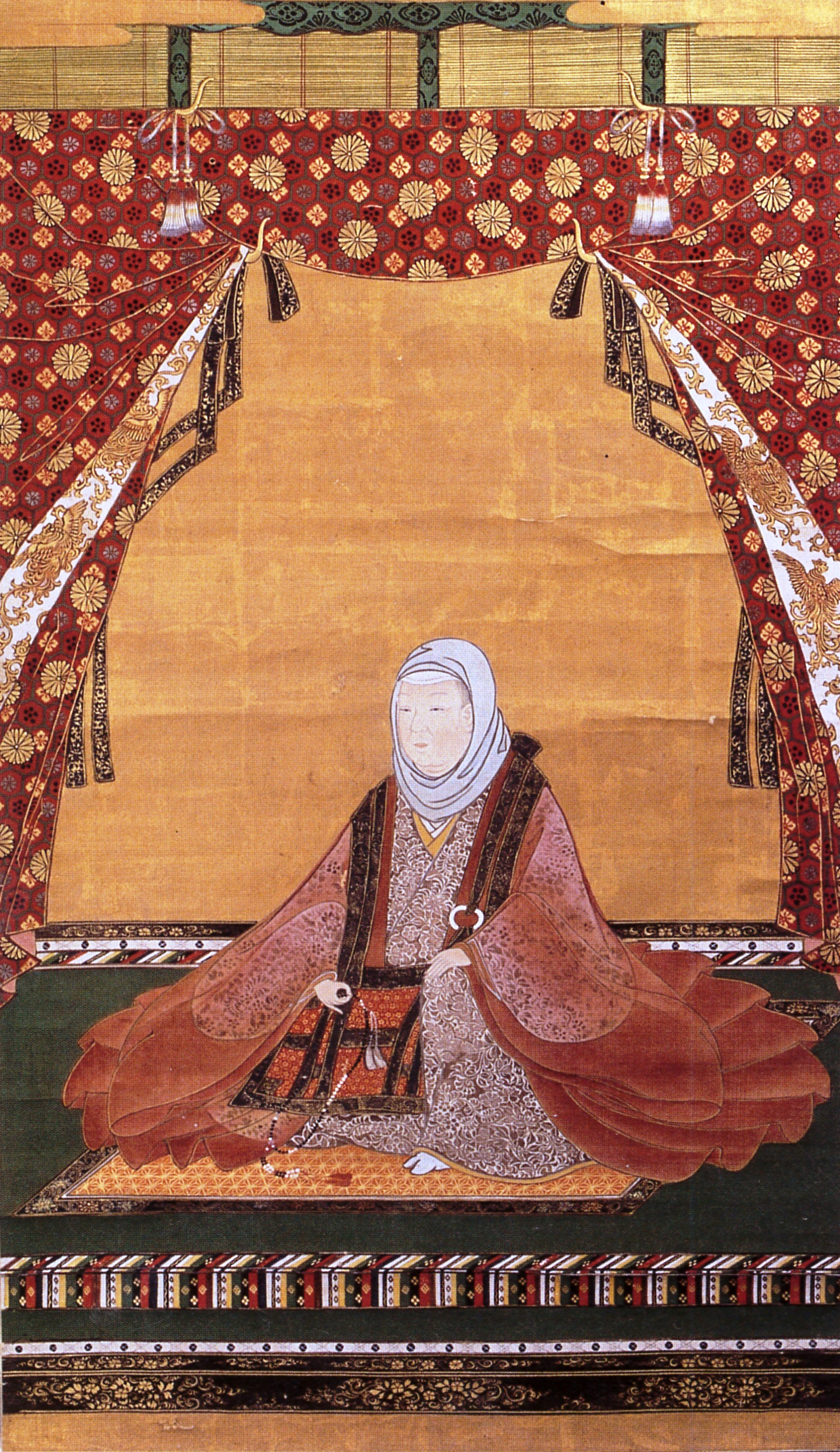 The portrait of Jokoin (aka.Azai_Ohatsu) who is wife of Kyogoku Takatsugu.